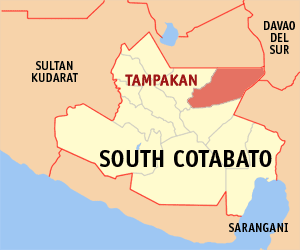 Map of the South Cotabato showing the location of Tampakan